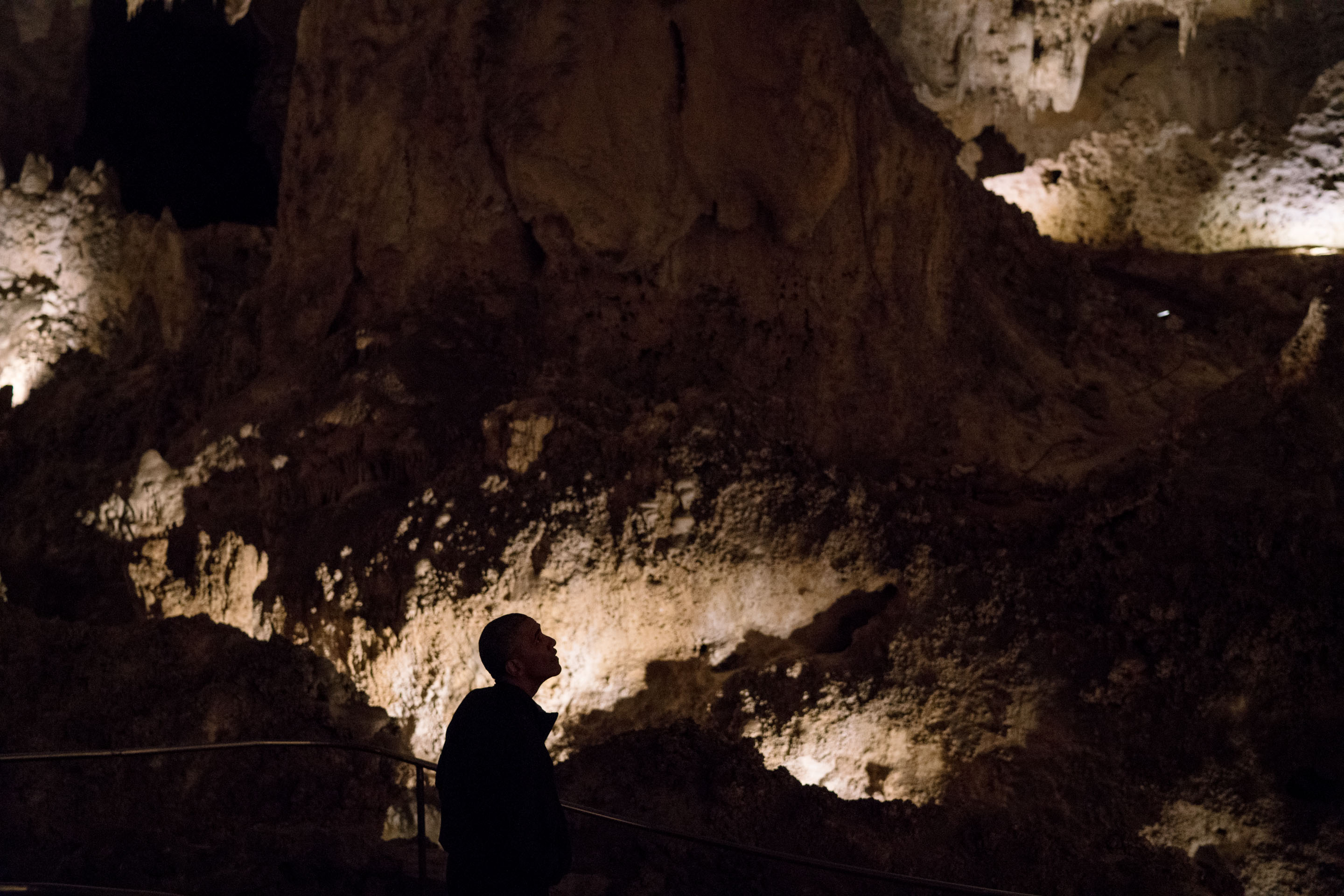 President Barack Obama looks upward as he tours Carlsbad Caverns with his family in Carlsbad, N.M., June 17, 2016. (Official White House Photo by Pete Souza)